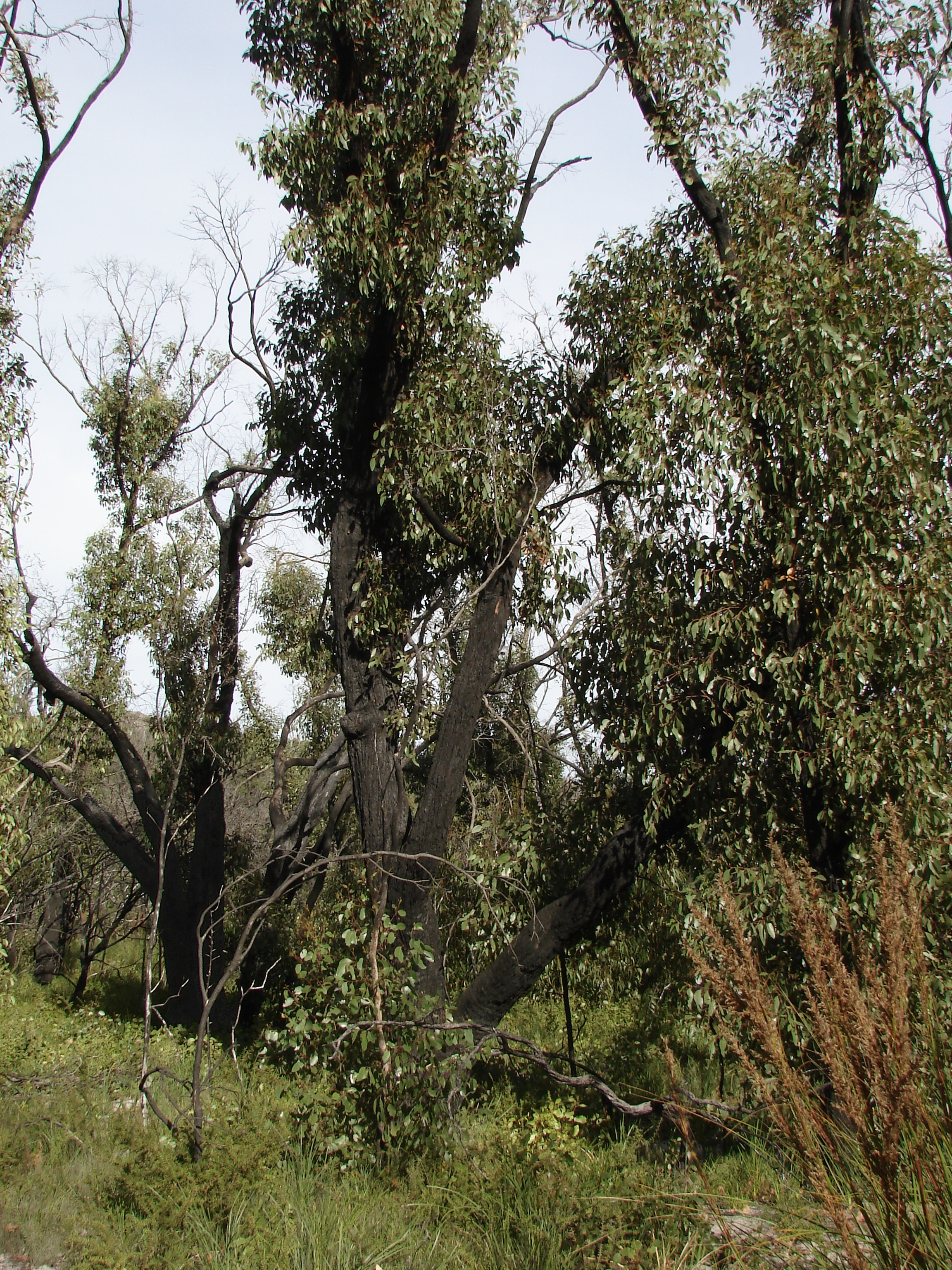 New shoots sprouting from charred trees after bushfire, Grampians National Park, Victoria, Australia